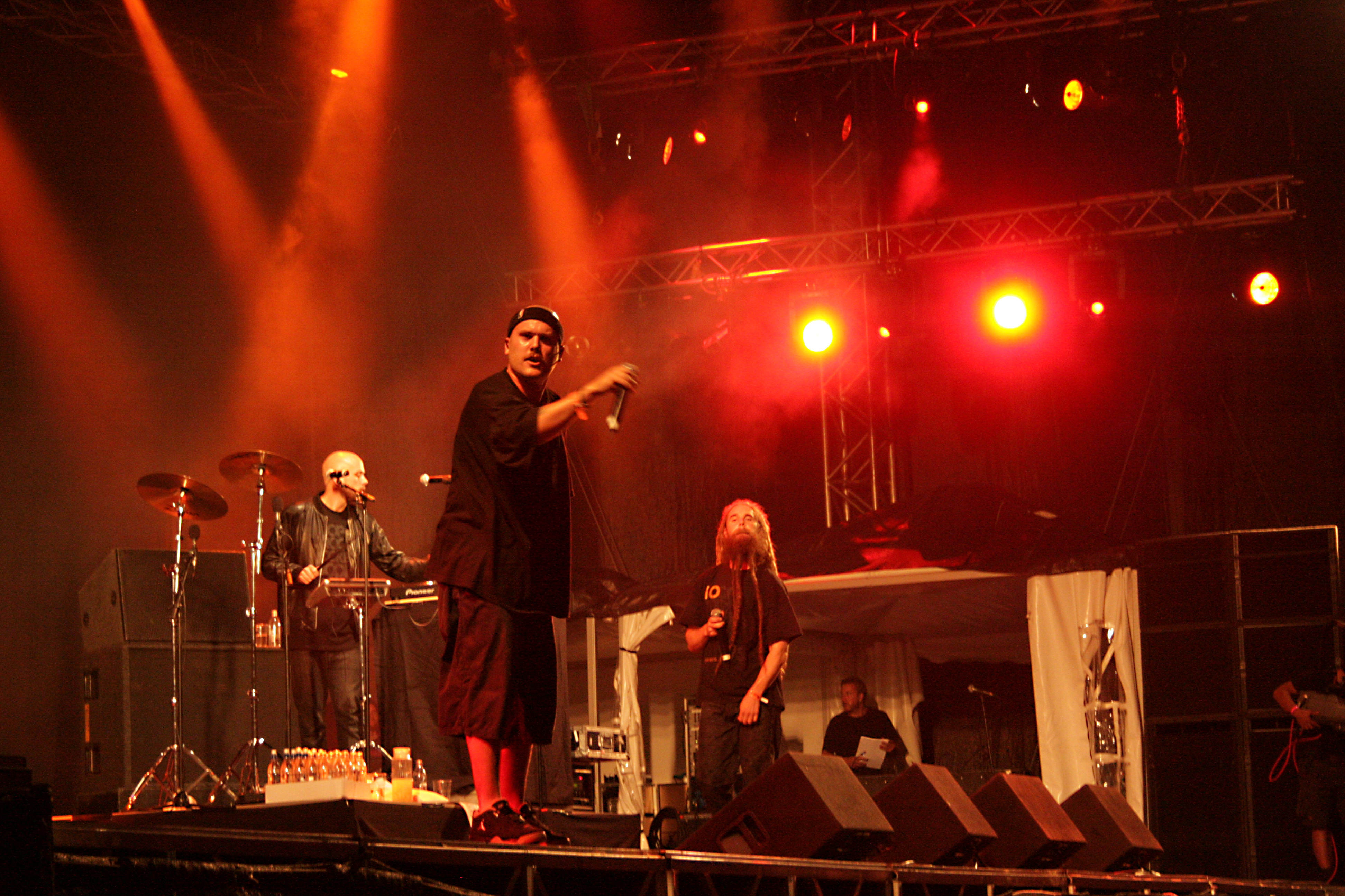 Looptroop Rockers during Malmöfestivalen in 2008.